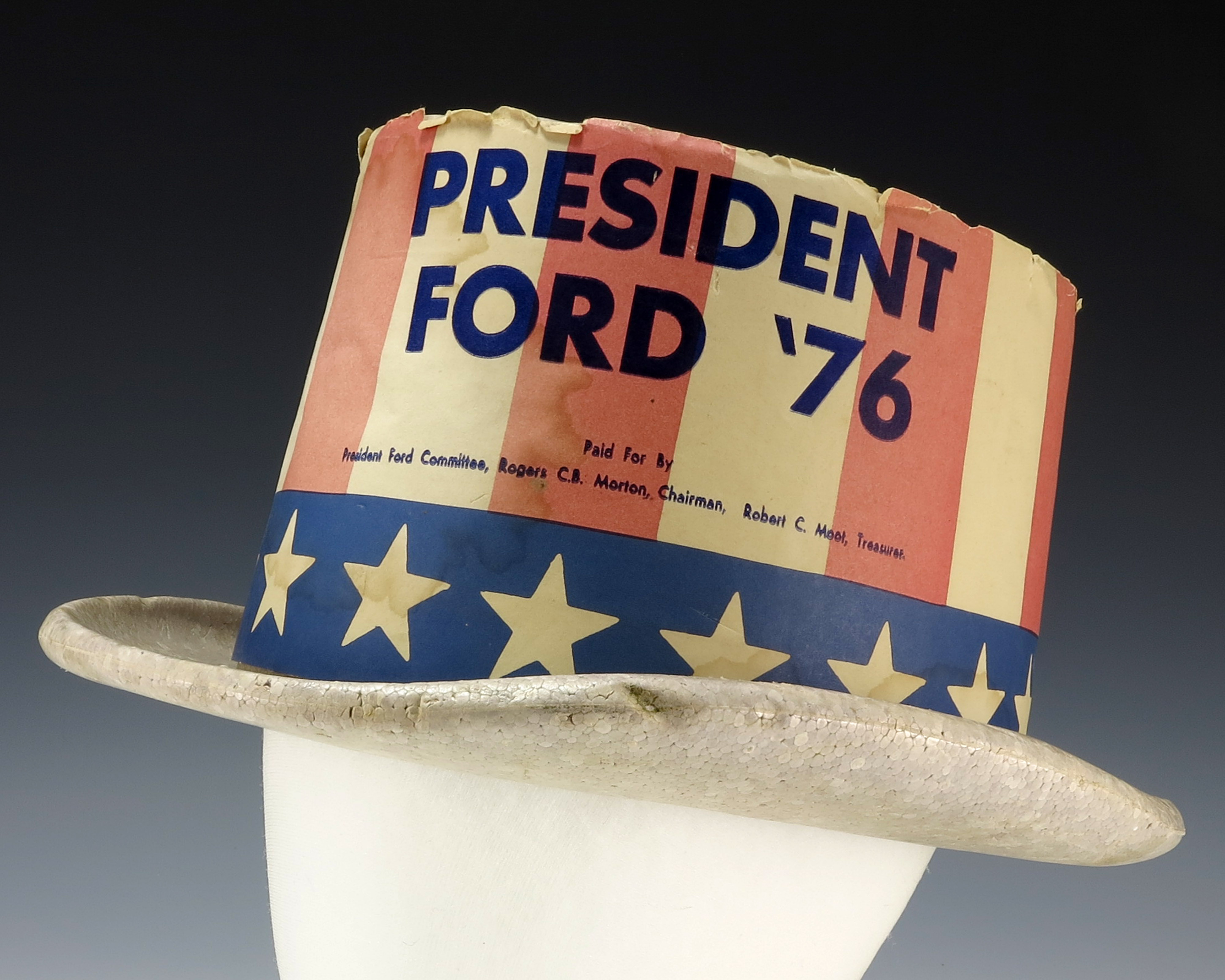 Foam, campaign top hat featuring a stars and stripes design and text, “President Ford ’76.” Smaller text reads, “Paid for by President Ford Committee, Rogers C. B. Morton, Chairman, Robert C. Moot, Treasurer.” Worn by Gerald R. Ford’s delegates during the 1976 Republican National Convention.